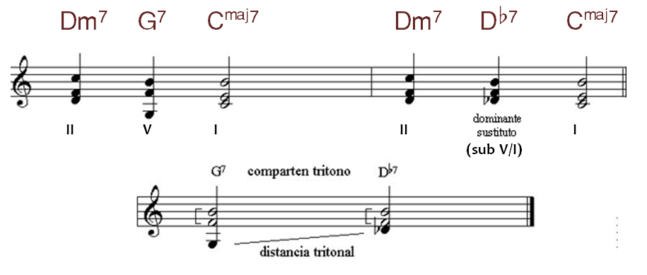 Tritone substitution. Note that B=C♭ and should be notated as such given a D♭7 chord.